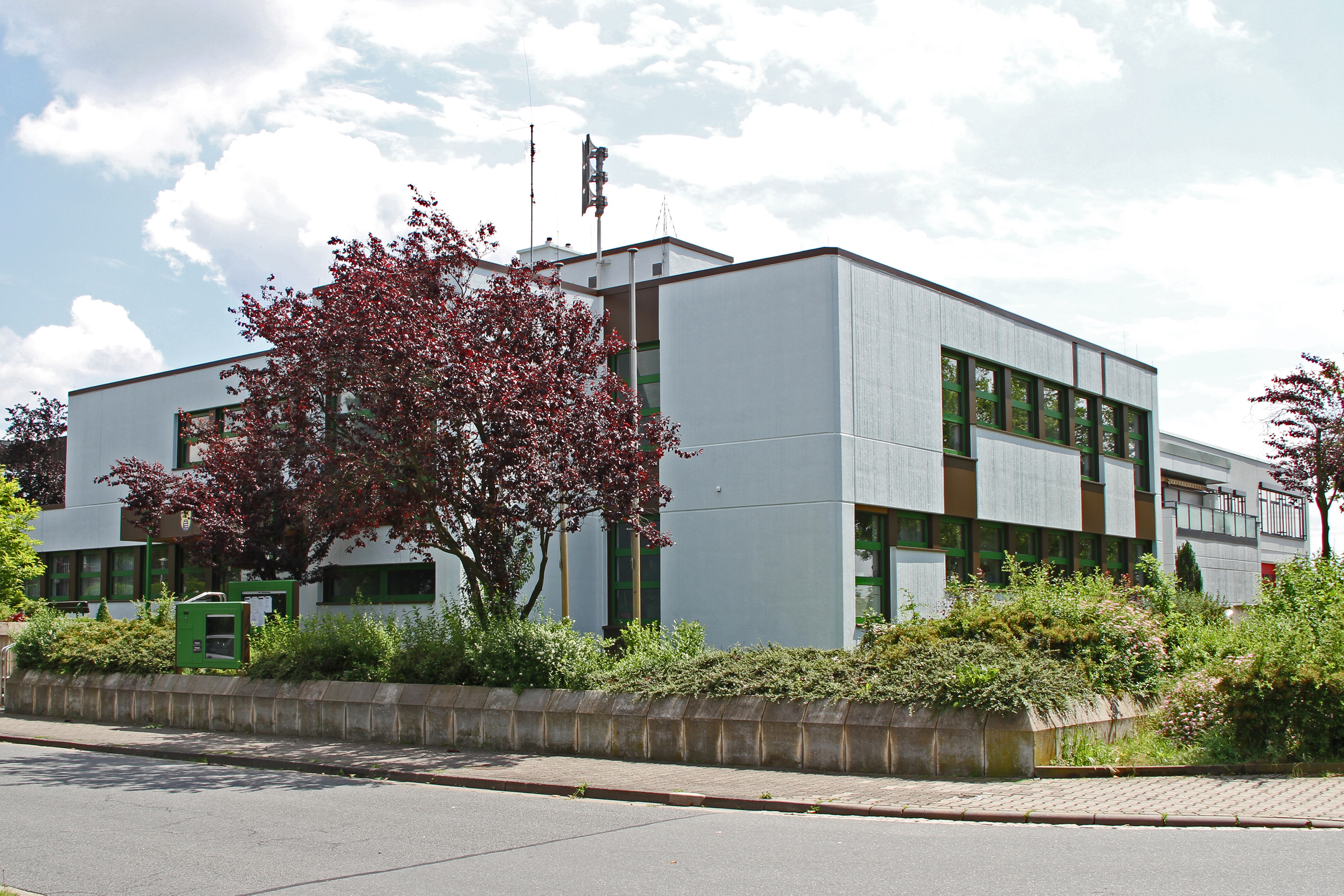 Town halls from Erzhausen (Darmstadt-Dieburg) Germany